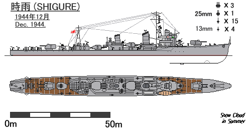 figure of Japanese Shiratsuyu-class destroyer Shigure(II) in Dec. 1944.